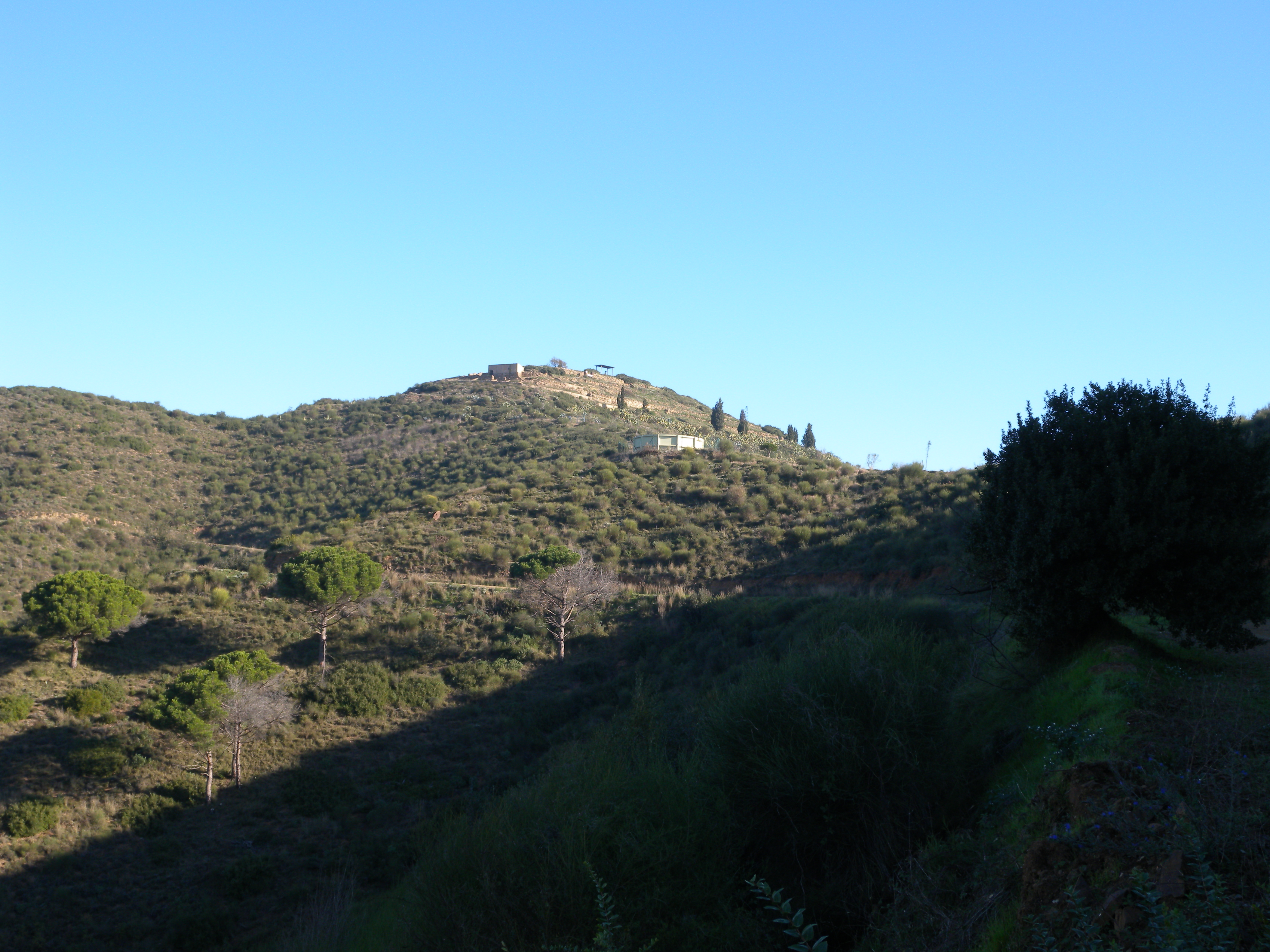 Puig Castellar, Barcelona